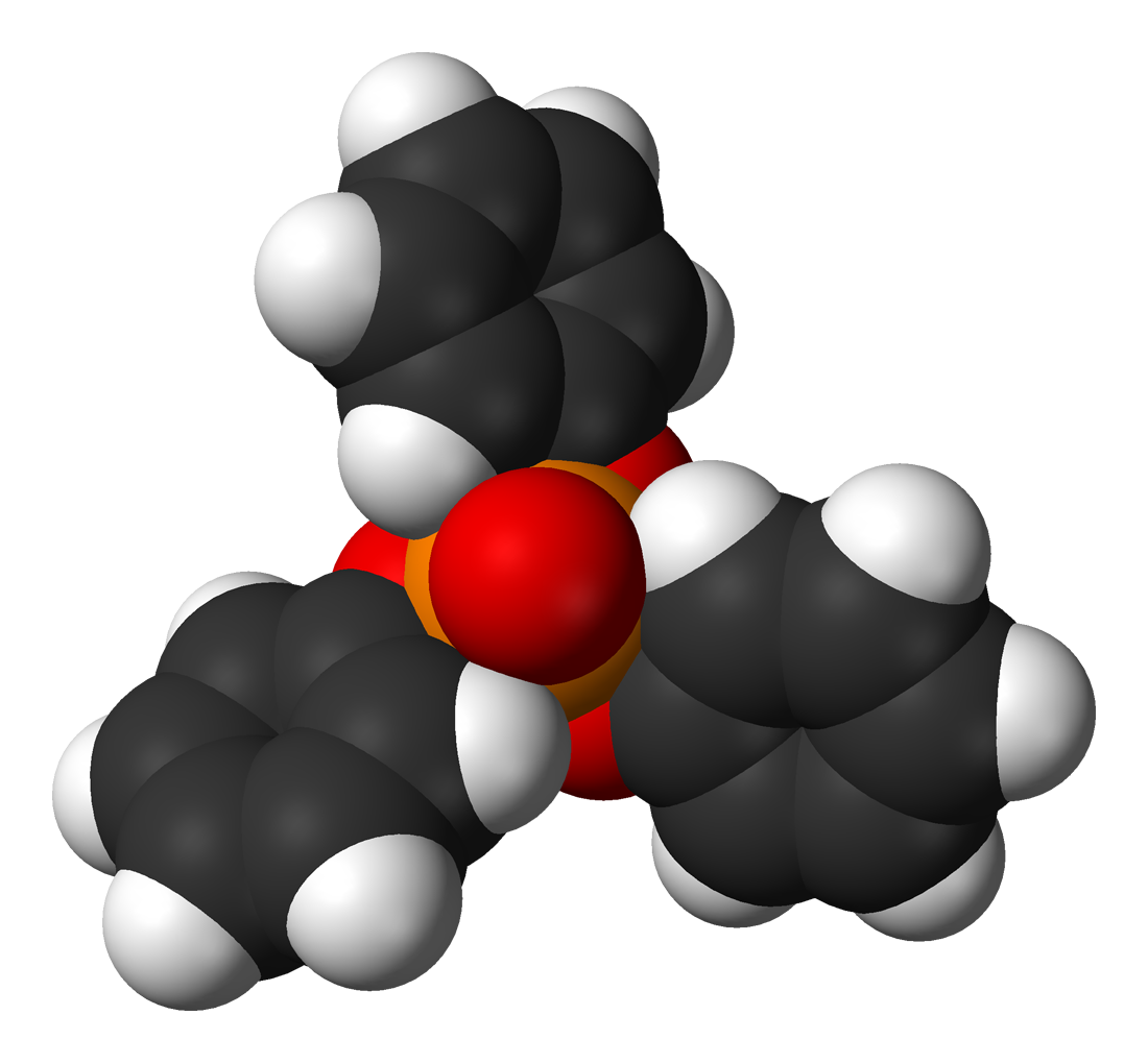 Space-filling model of the triphenyl phosphate molecule